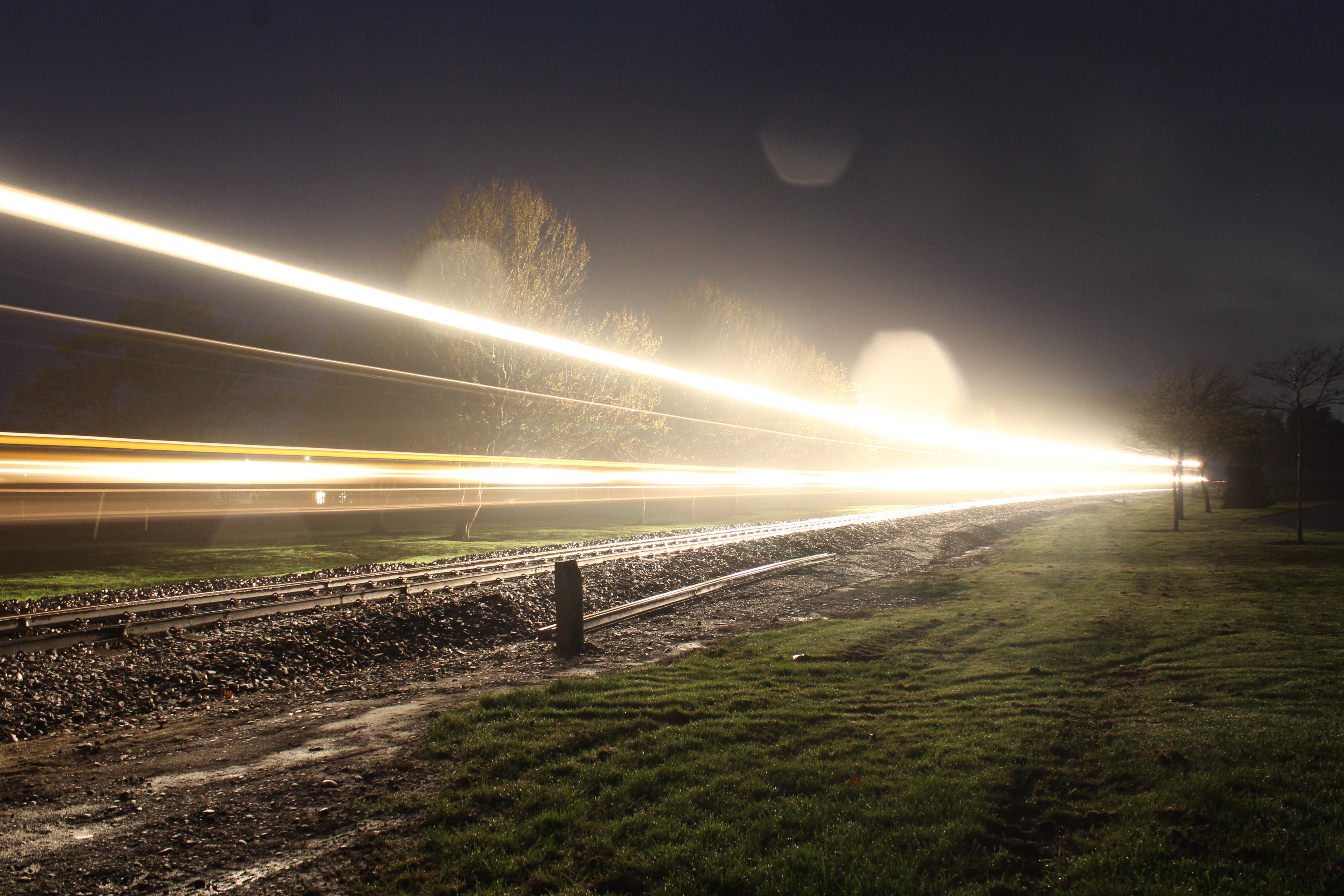 Train 937 passing through East Gore, New Zealand.